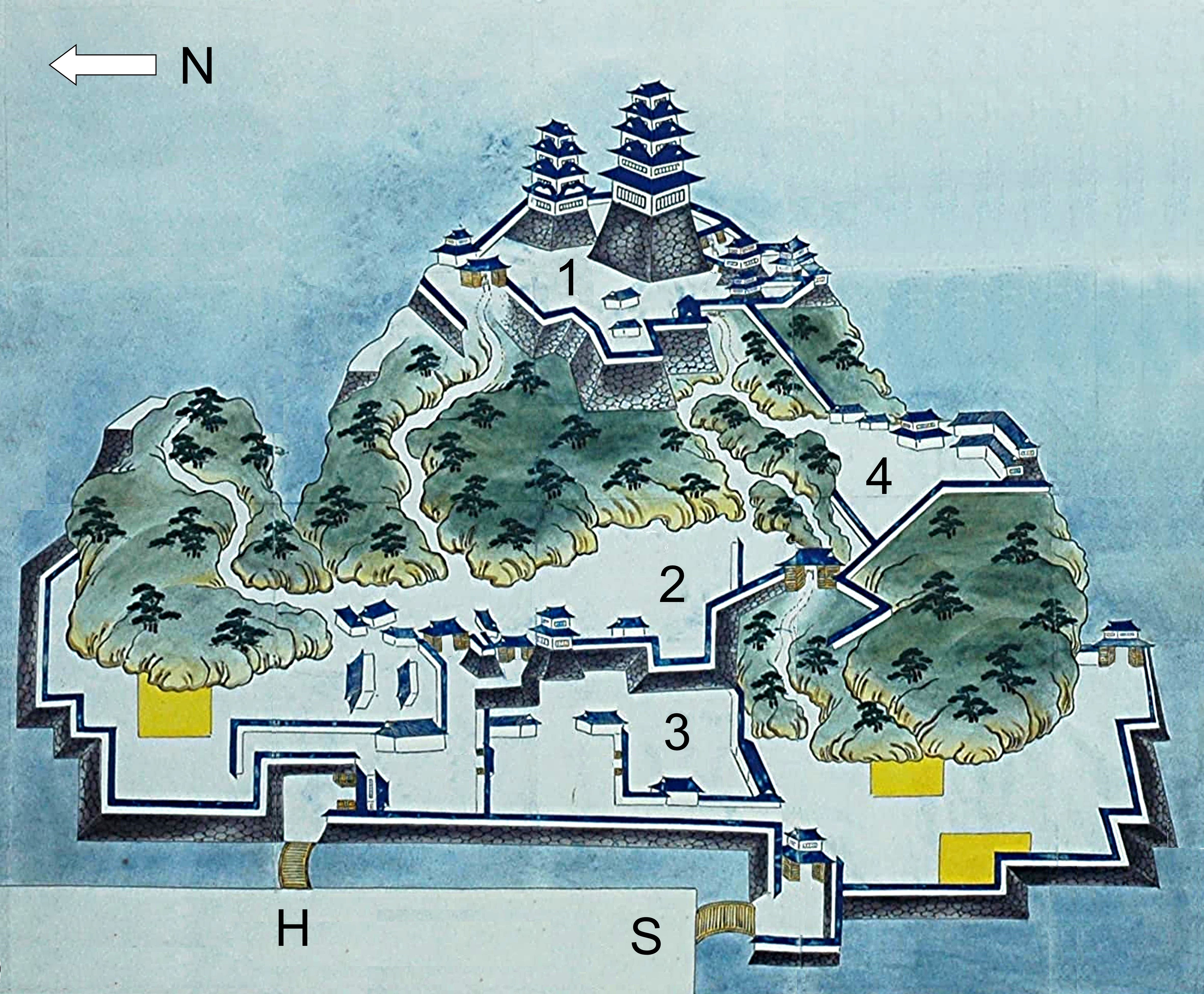 Old View on Yonago Castle, Tottori prefecture, Japán